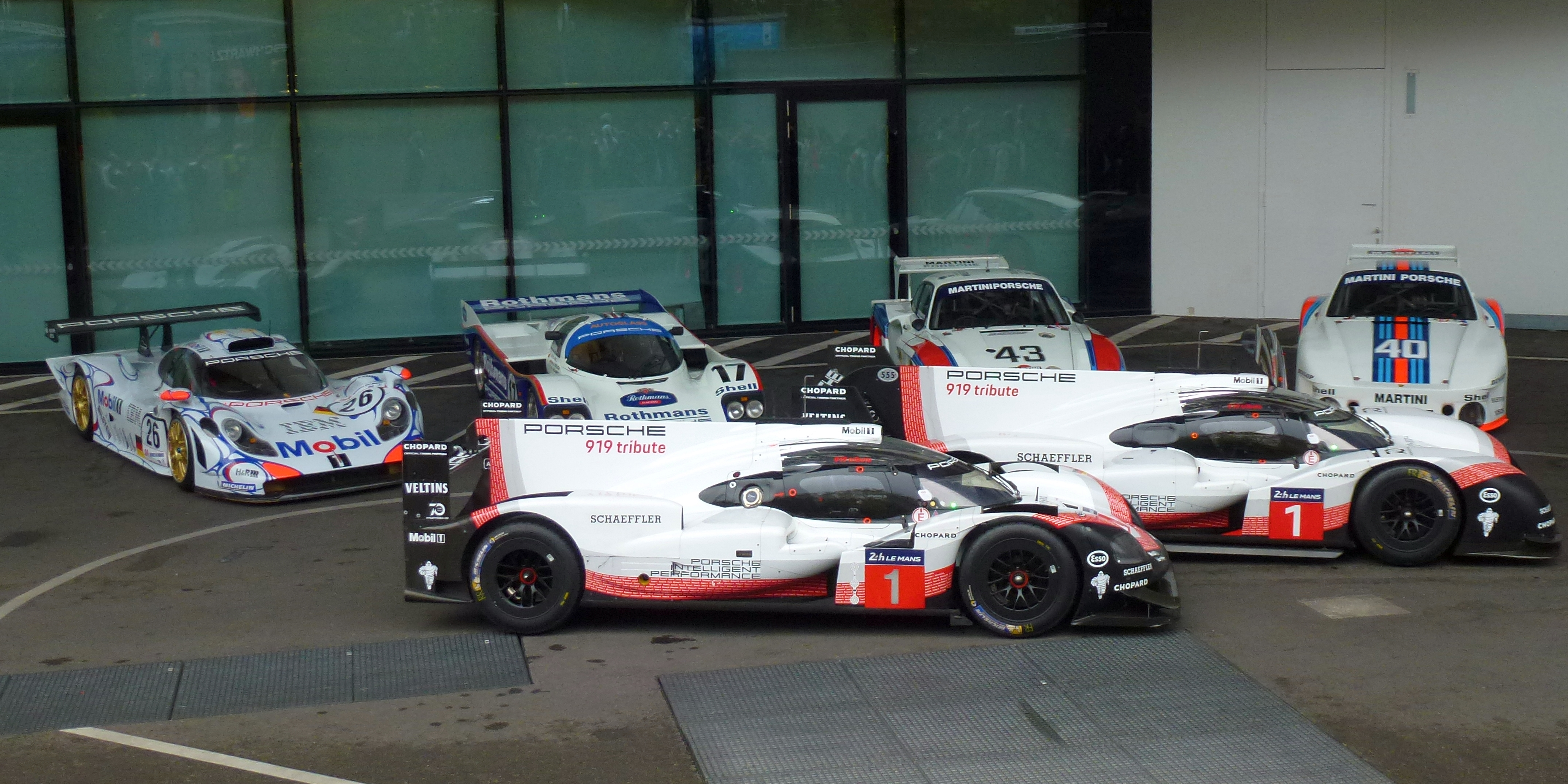 The Porsche 919 hybrid and evo cars after their retirement at the Porsche museum in Stuttgart-Zuffenhausen.